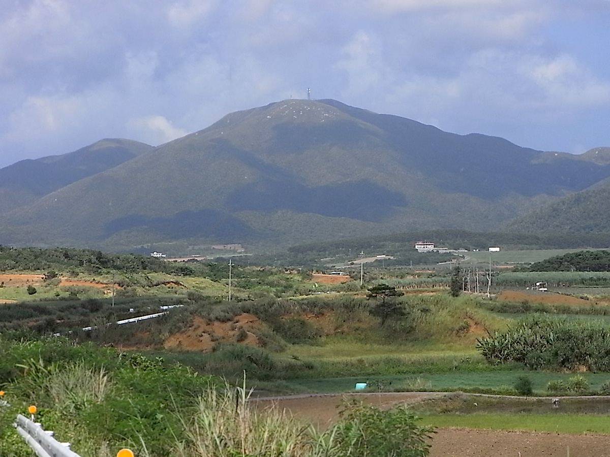 Omoto-dake, Ishigaki, Okinawa, Japan